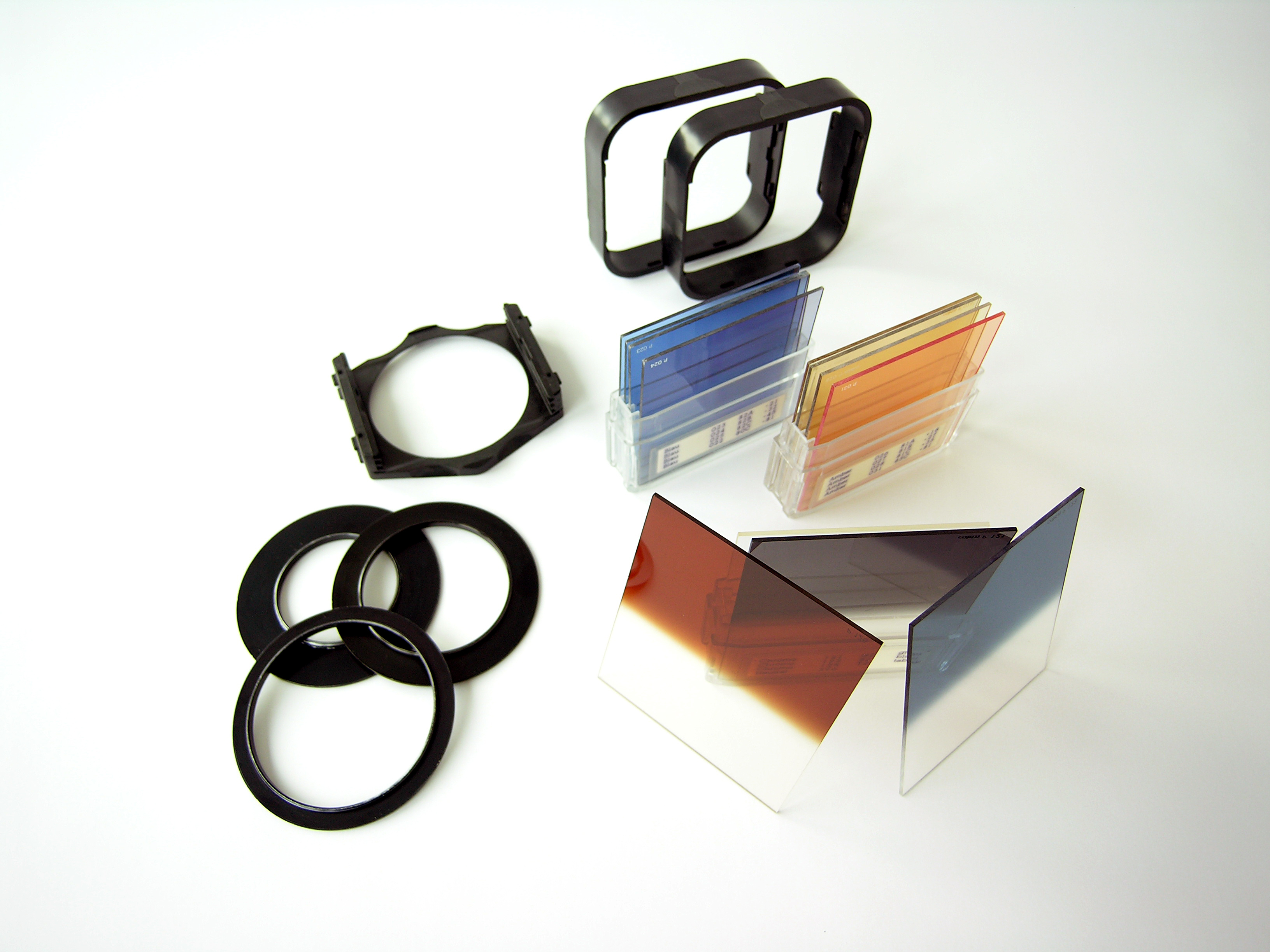 Cokin filter system for photography: P-Series adapter rings, filter holder, lens hoods and a selection of filters